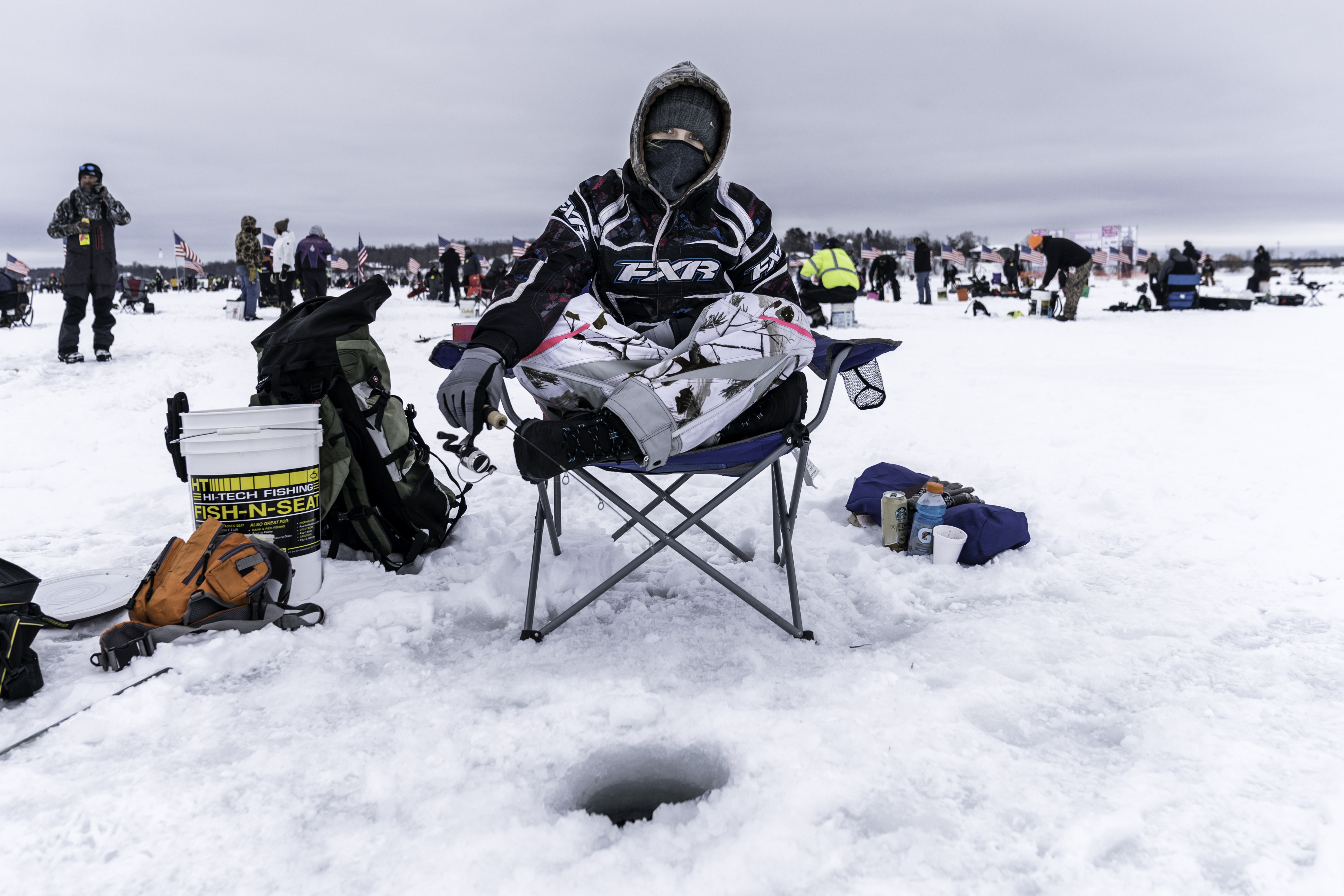 Ice fishing at The Brainerd Jaycees Ice Fishing Extravaganza on Gull Lake’s Hole-in-the-Day Bay in Minnesota